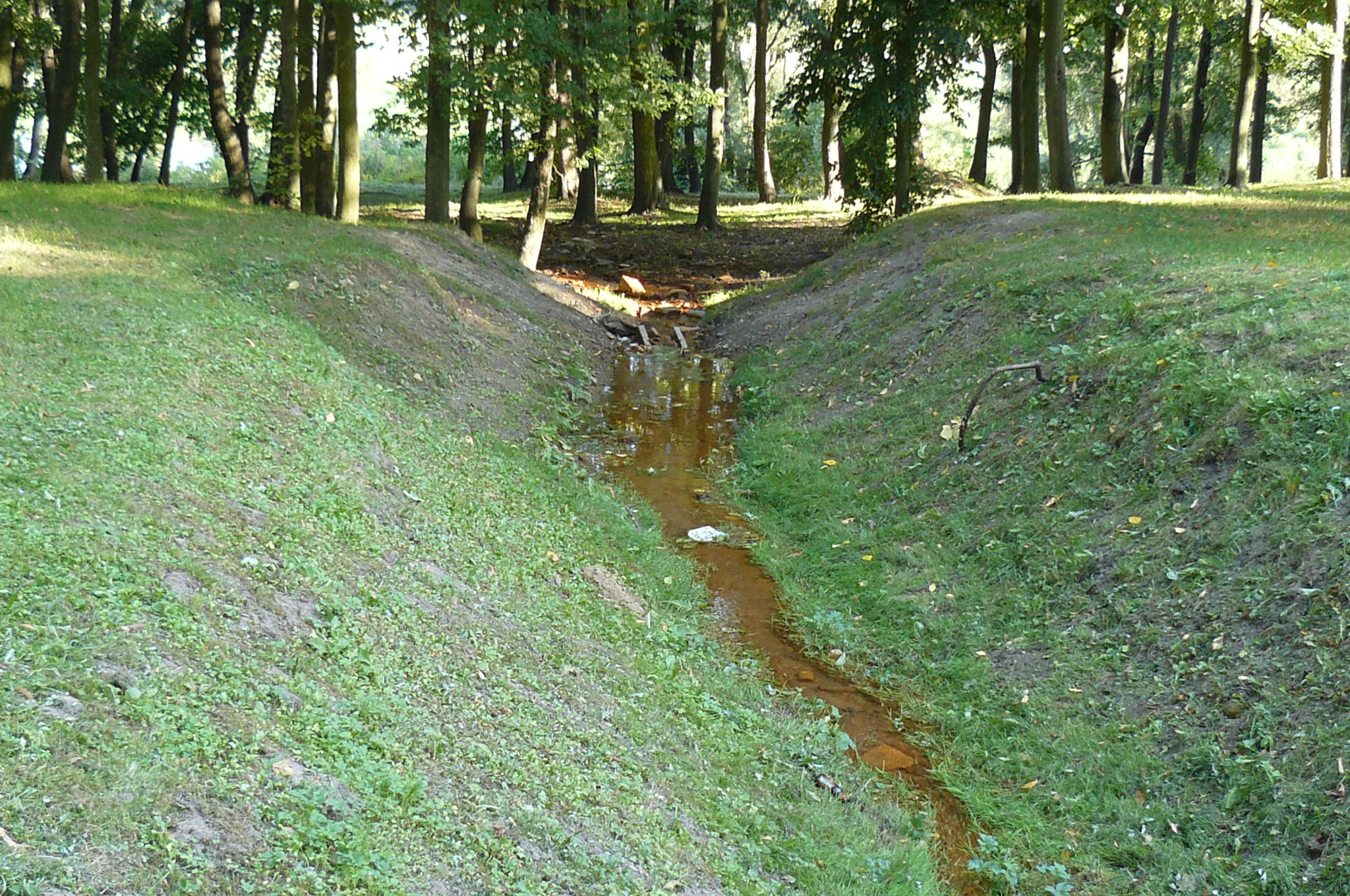 Szelagowski Park in Poznan - spring.